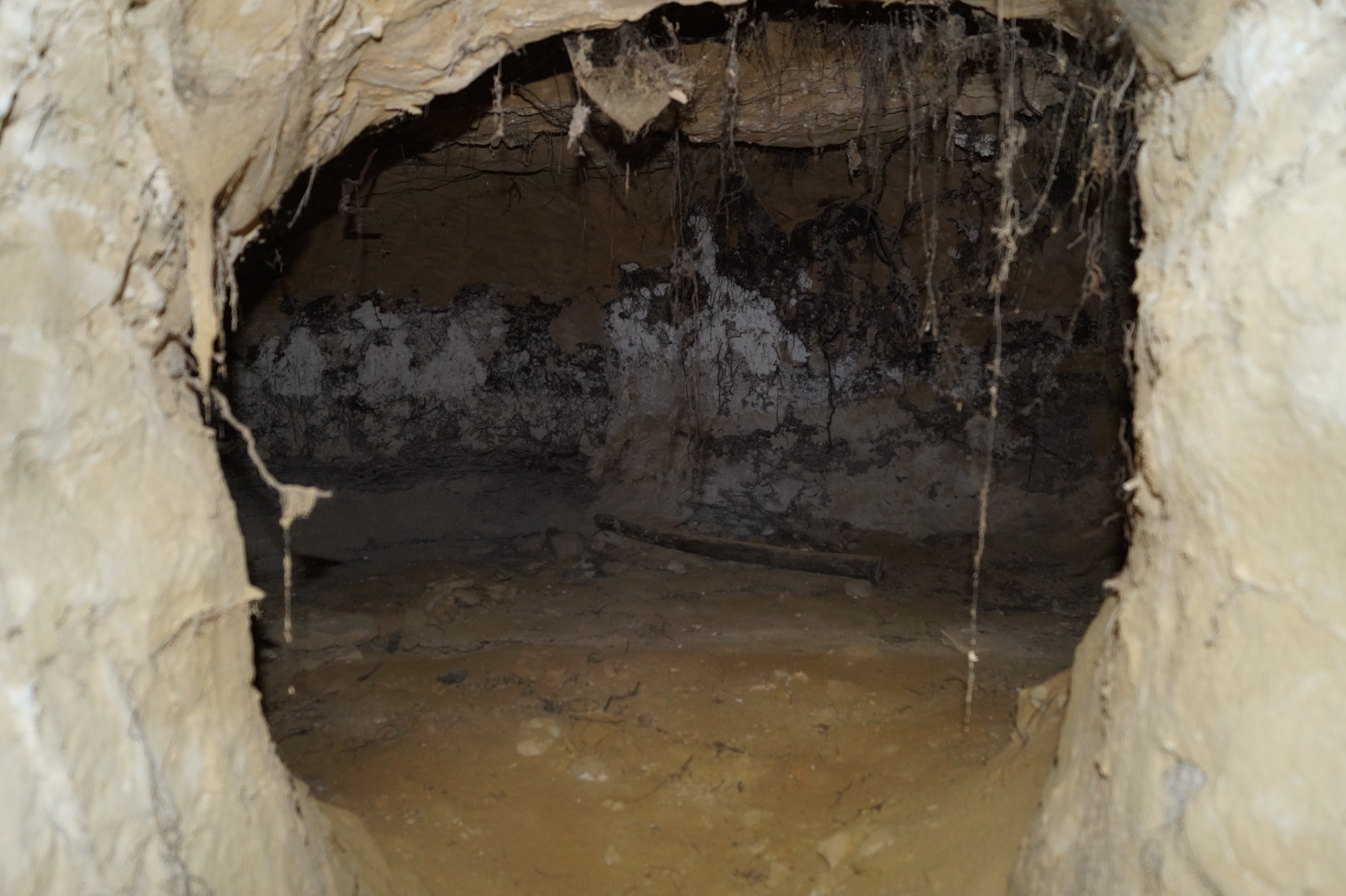 Kato Almyri, Corinthia, Greece: View in the chamber of tomb XI of the mycenaean cemetery of Kato Almyri.